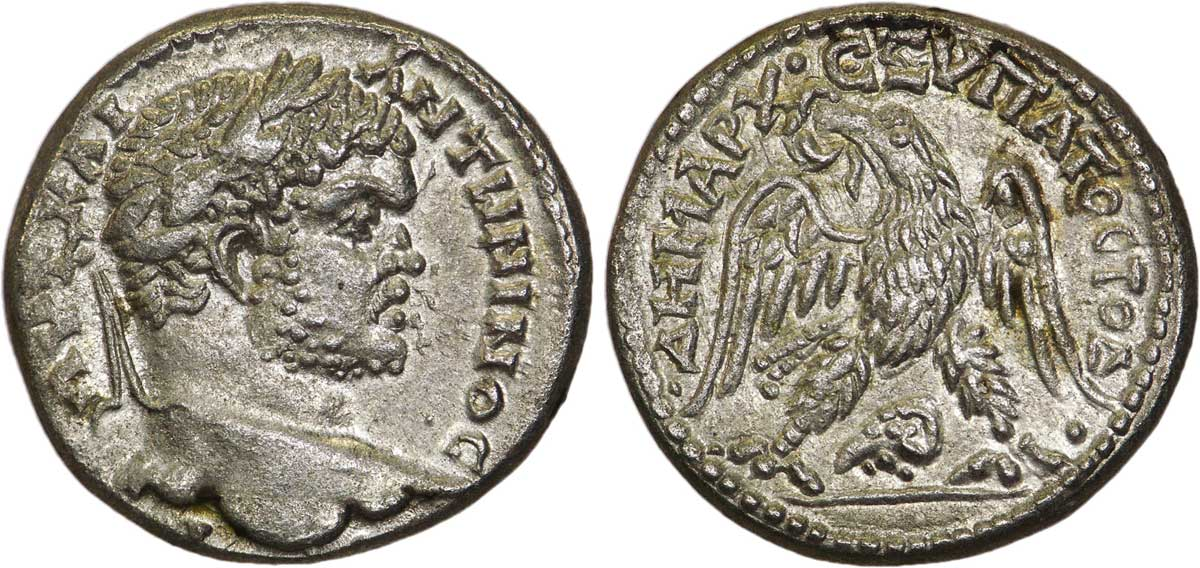 Monnaie frappée en la cité de Damas